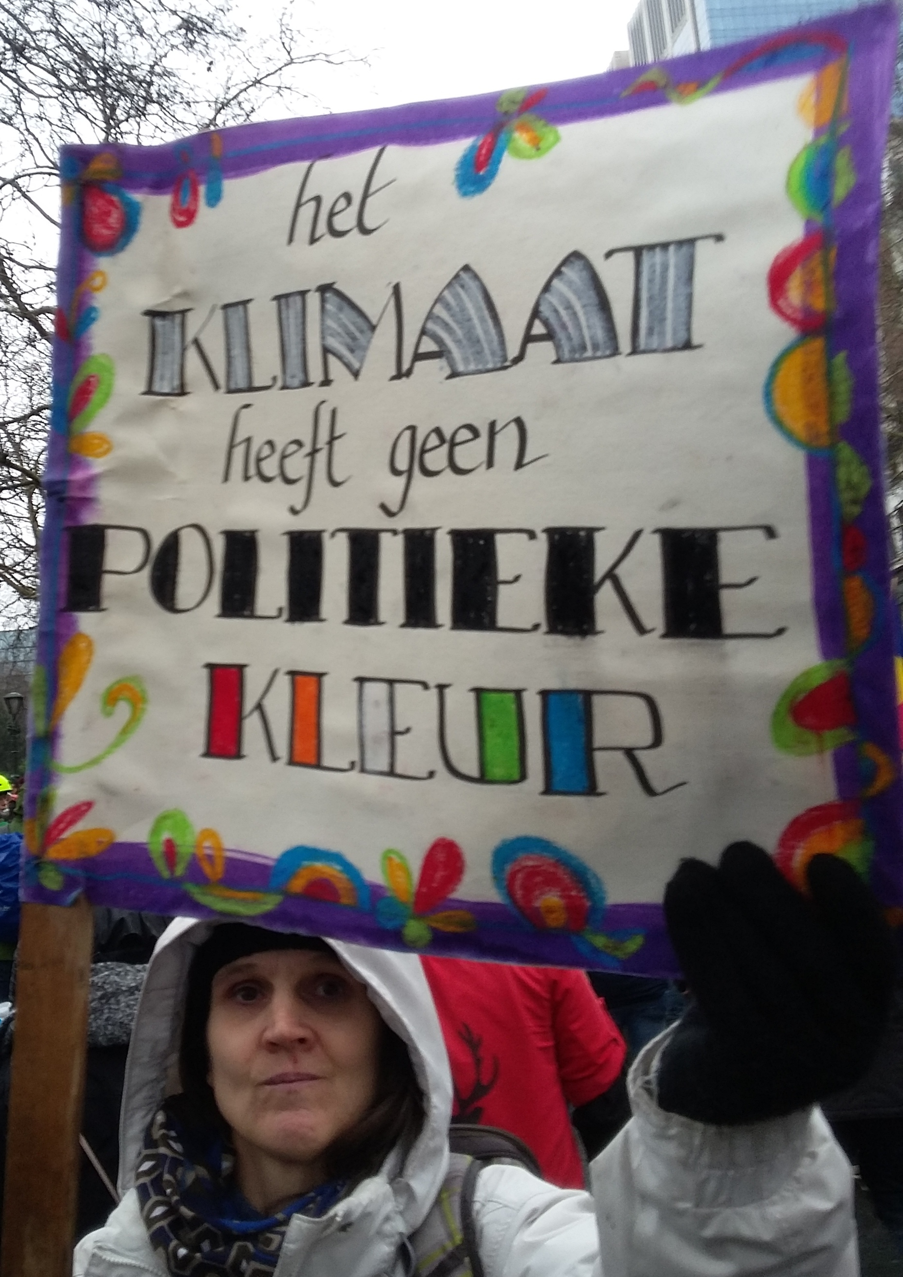 Placard "The climate has no political colour", at the demonstration for climate in Brussels, on Sunday 27 January 2019.